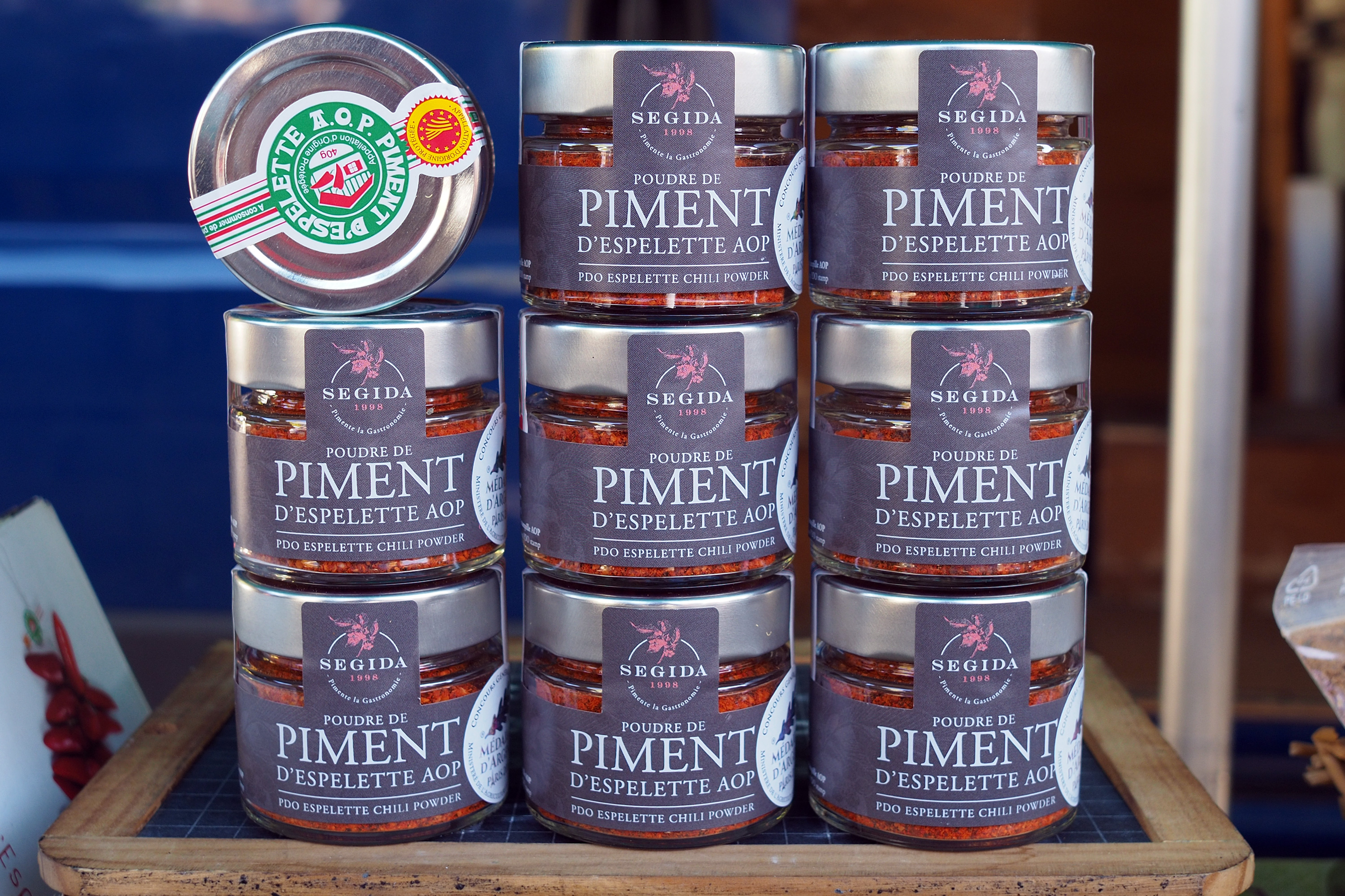 Piment d'Espelette